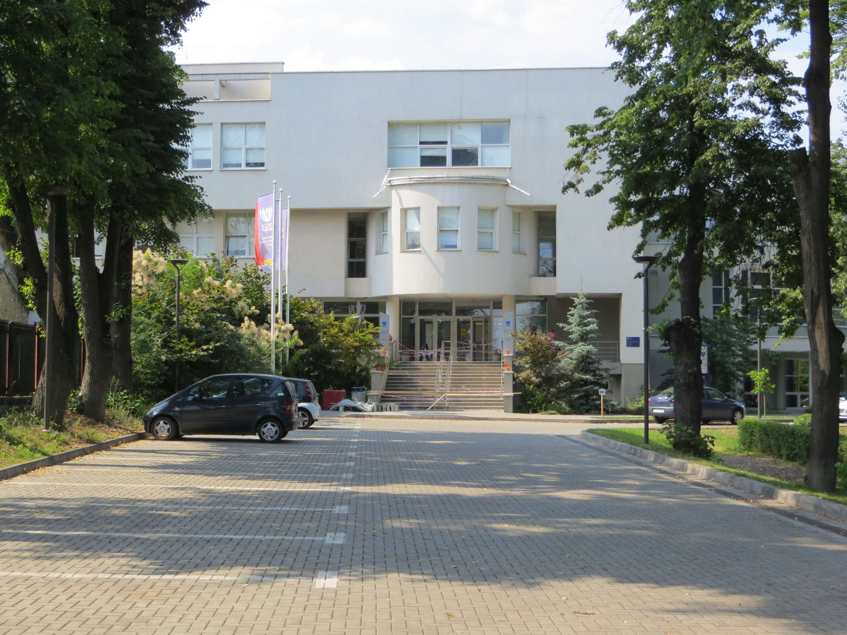 Ştefan cel Mare University in Suceava.